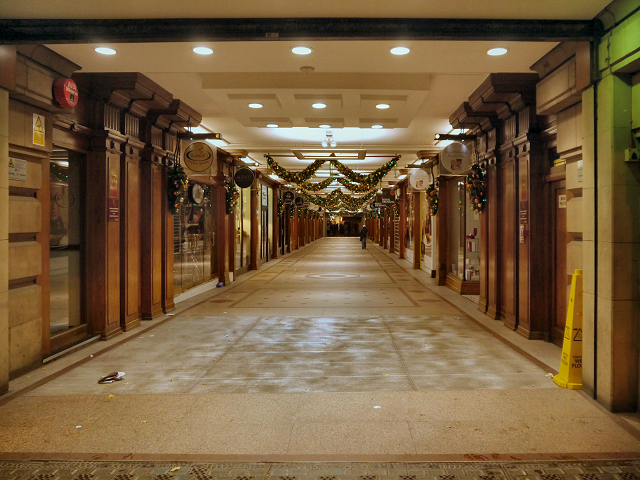 The Royal Exchange Arcade, part of the Royal Exchange building in Manchester, England